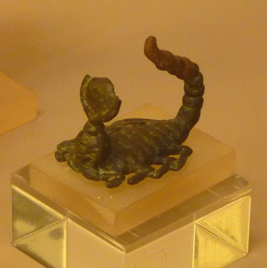 Bronze statue of the goddess Serqet. Unknown provenience, Late to Ptolemaic period. Archeological museum of Bologna (Italy).